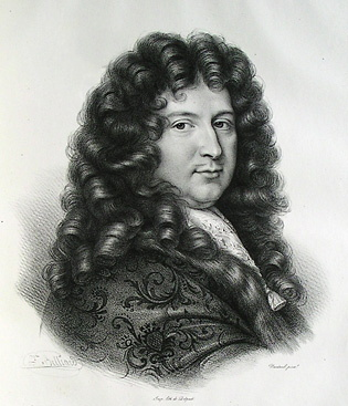 François Michel Le Tellier, Marquis de Louvois (1641 – 1691)